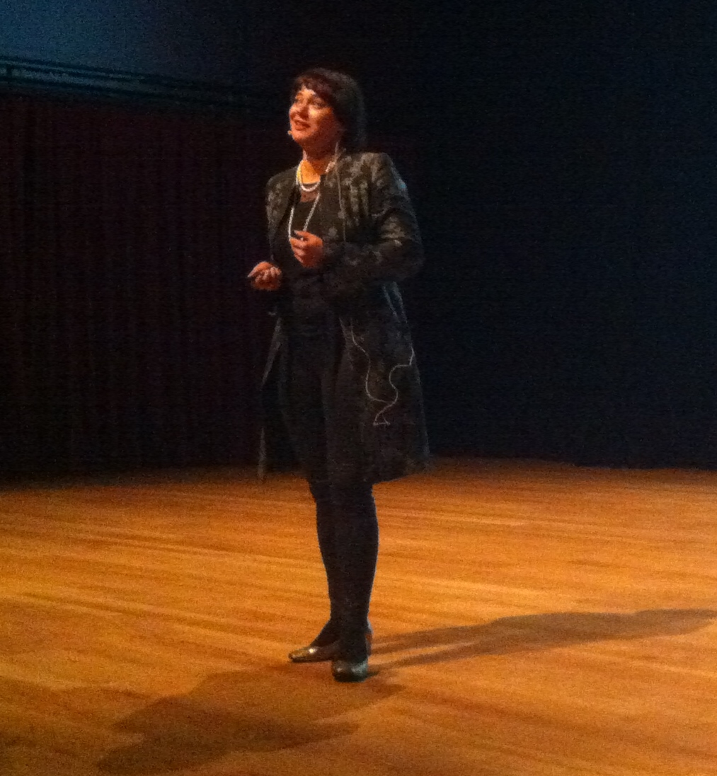 Jóhanna á Bergi is a Faroese business woman. She has been the CEO for Atlantic Airways since 1 September 2015.